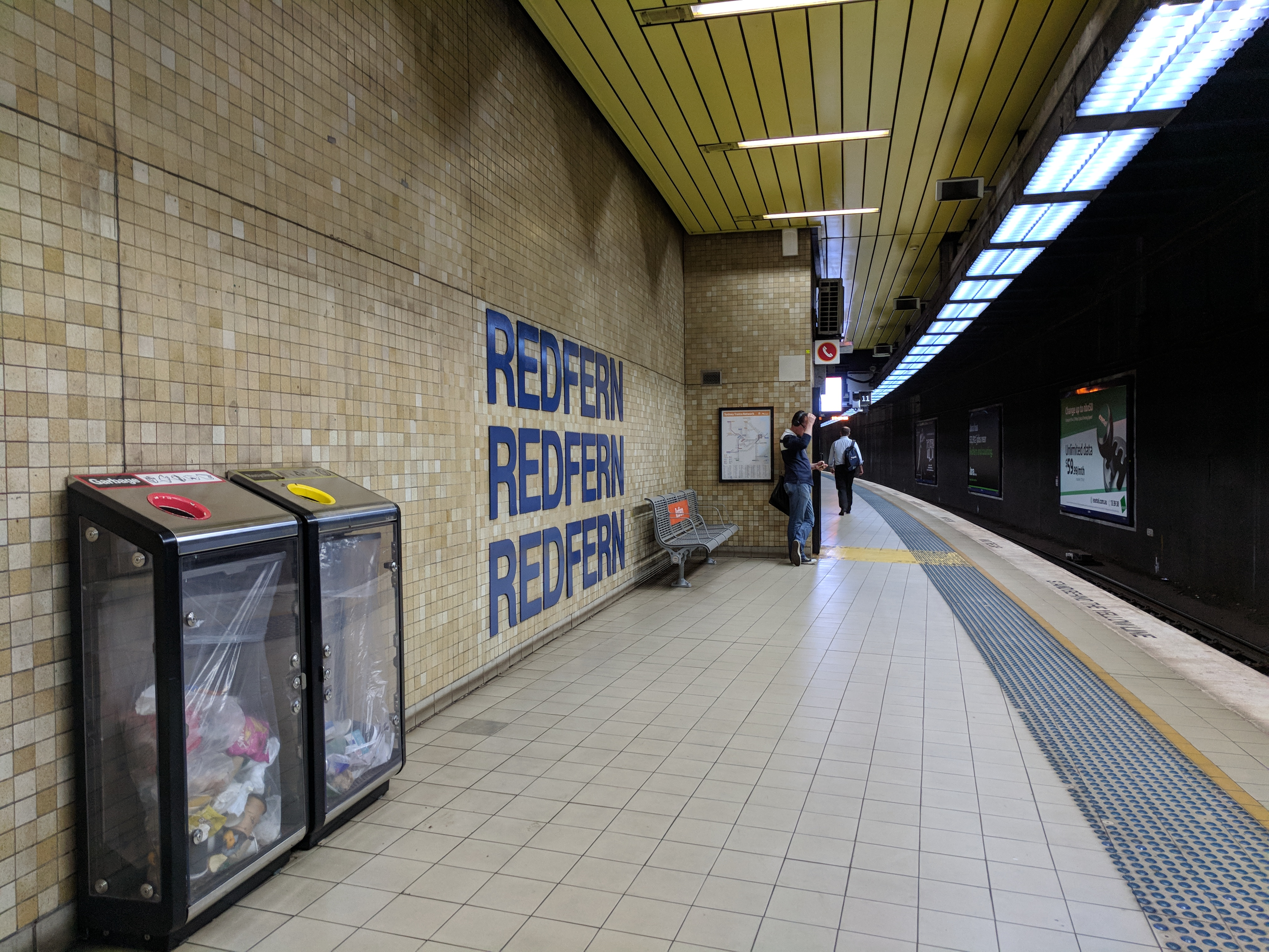 Platform 11 at Redfern Station. This is one of the station's underground platforms.